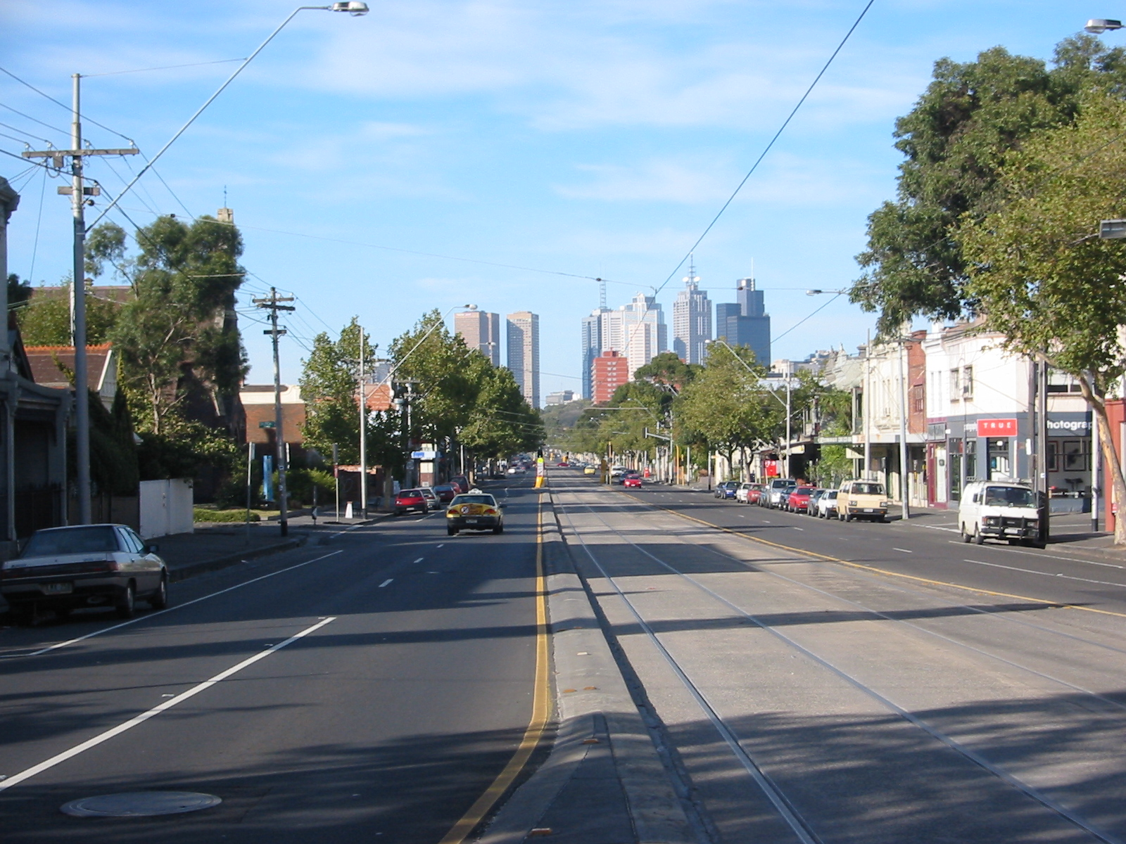 Nicholson StreetNicholson Street